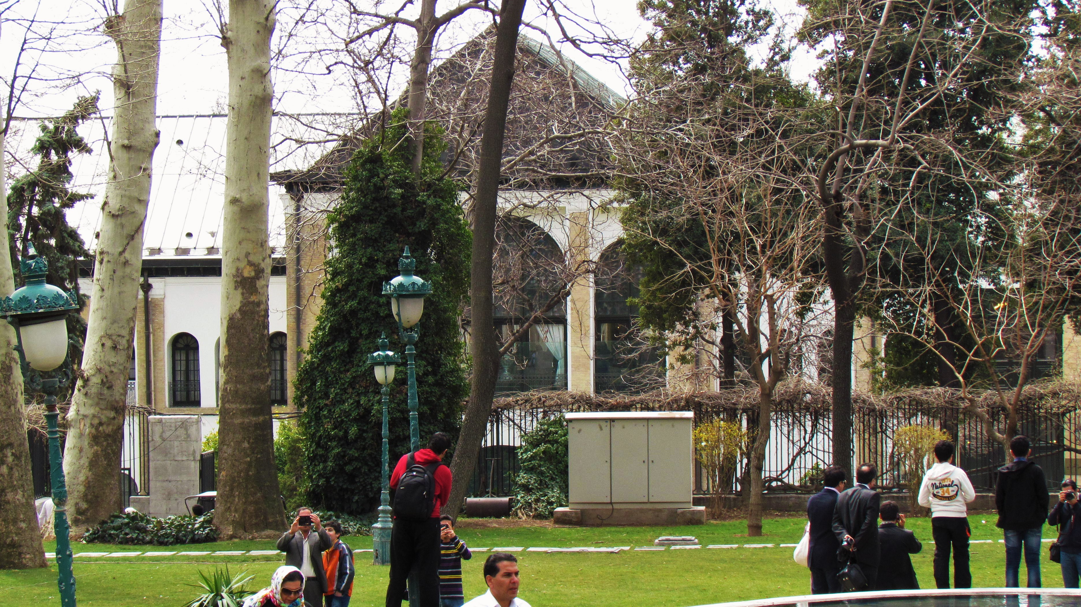 Niavaran Complex